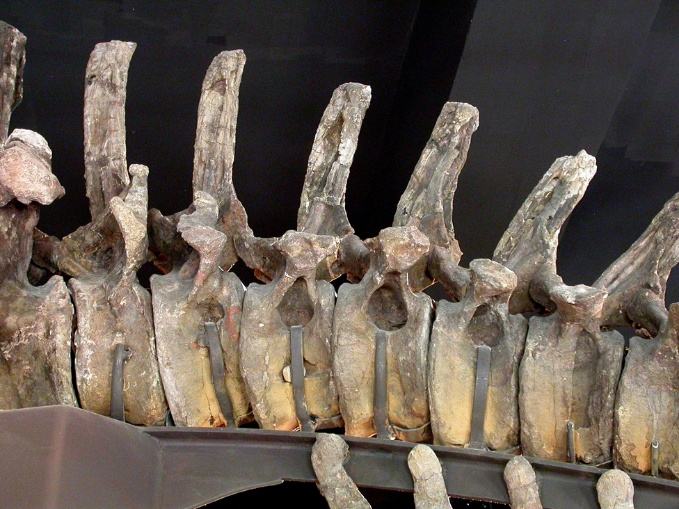 Pneumatic fossae are present in the proximal caudal vertebrae in many specimens of Apatosaurus. Here the first part of the tail of FMNH P25112, the mounted Apatosaurus skeleton in Chicago, is shown in left lateral view.